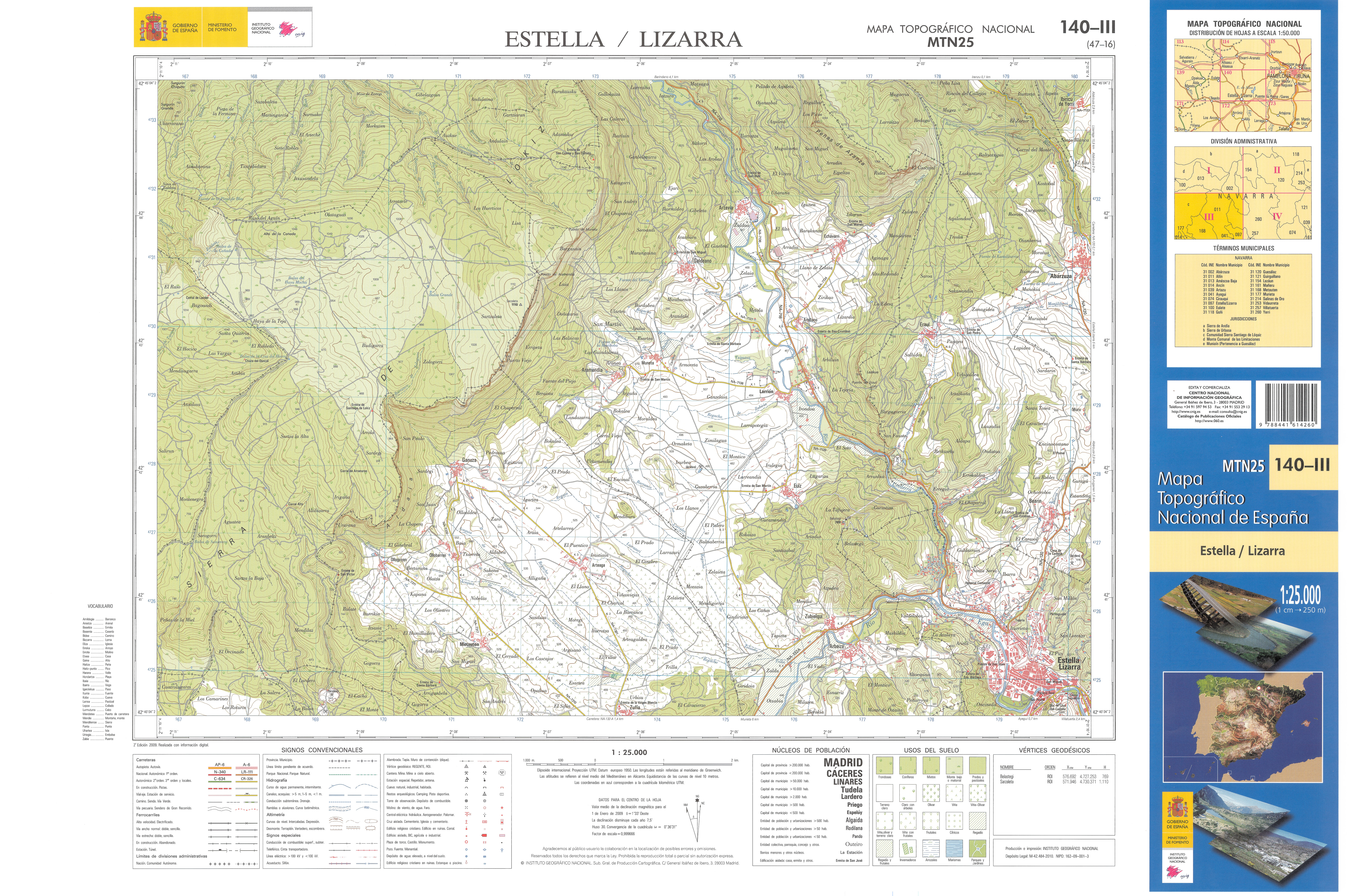 Fragment 0140c3 of the National Topographic Map of Spain in 2009 at a scale of 1:25000 printed and scanned with a resolution of 250 ppi. It shows Estella Lizarra.